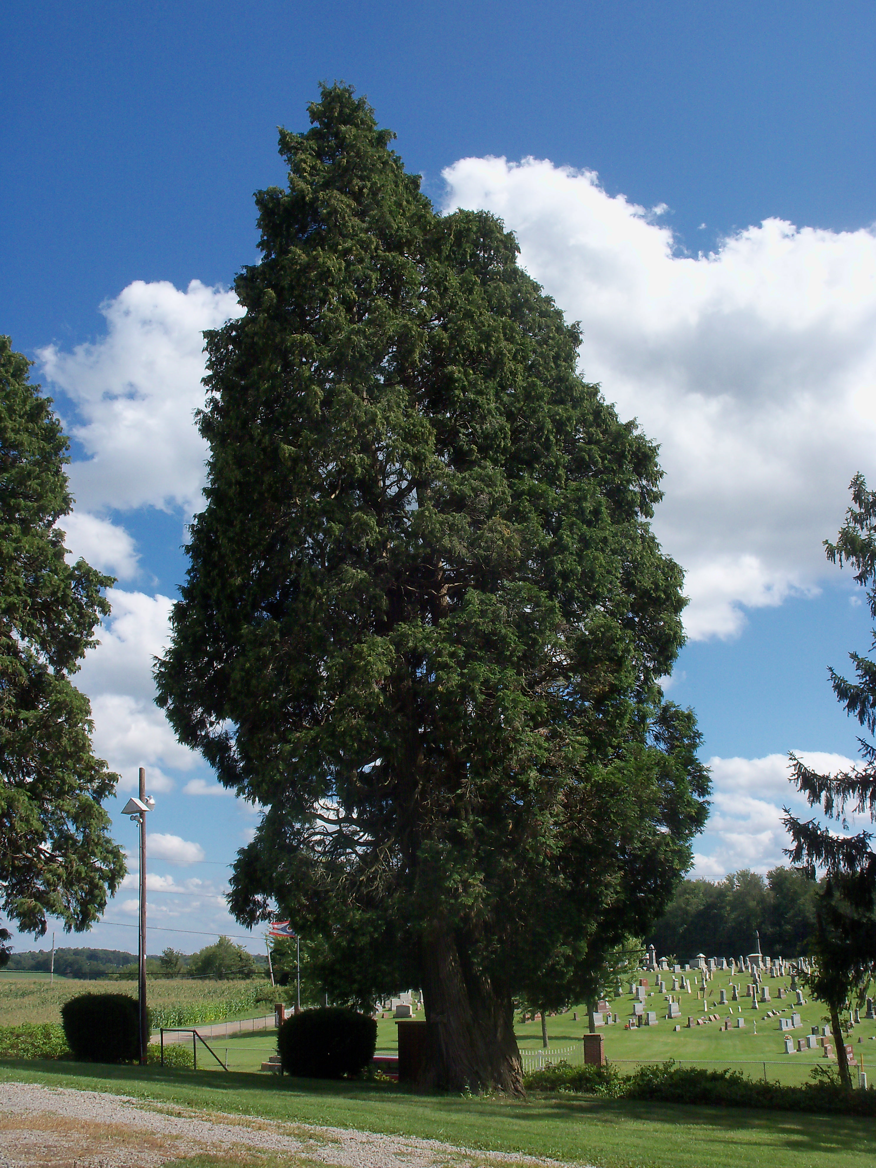 Ohio's largest Atlantic White Cedar (Chamaecyparis thyoides) stands in front of New Hope Lutheran Church in Muskingum County. It measured a tree index of 276.5 points in 2015 using formula of National Register of Big Trees.